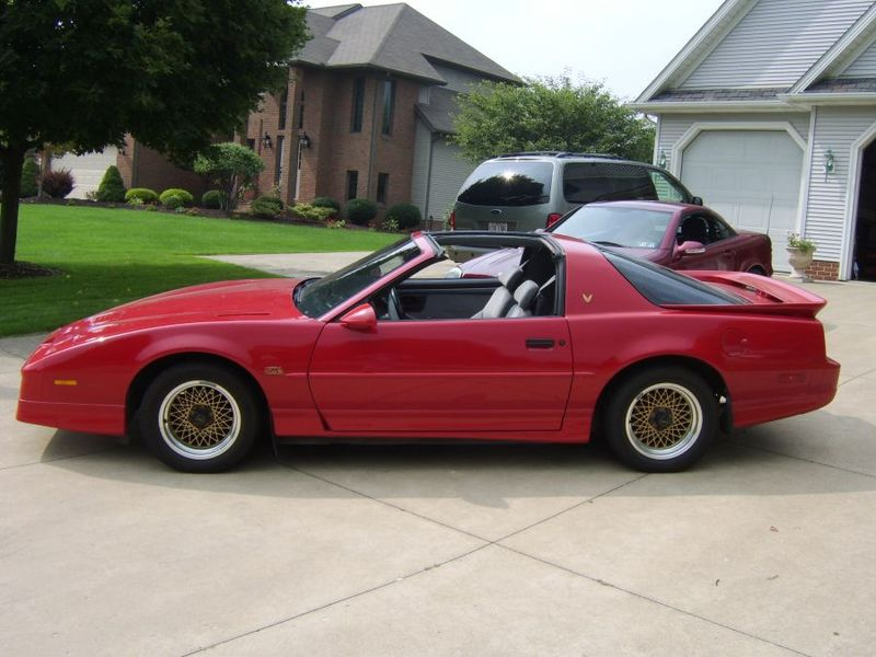 1988 Pontiac Trans Am GTA. 66,000 Original Miles 305 TPI V8 With Rare 5 Speed Manual Transmission. sleepy740